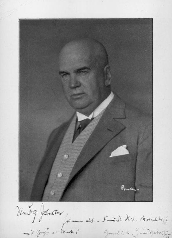 German writer Rudolf Presber, by Alexander Binder